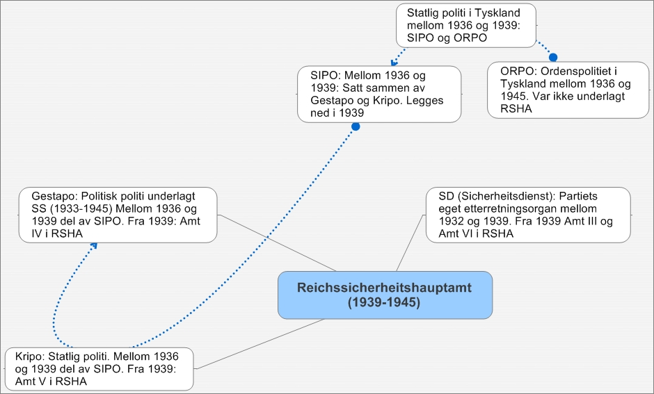 Schematic overview of policeorganisations in NS-Germany The organisation of Nazi German Reichssicherheitshauptamt etc described in Norwegian